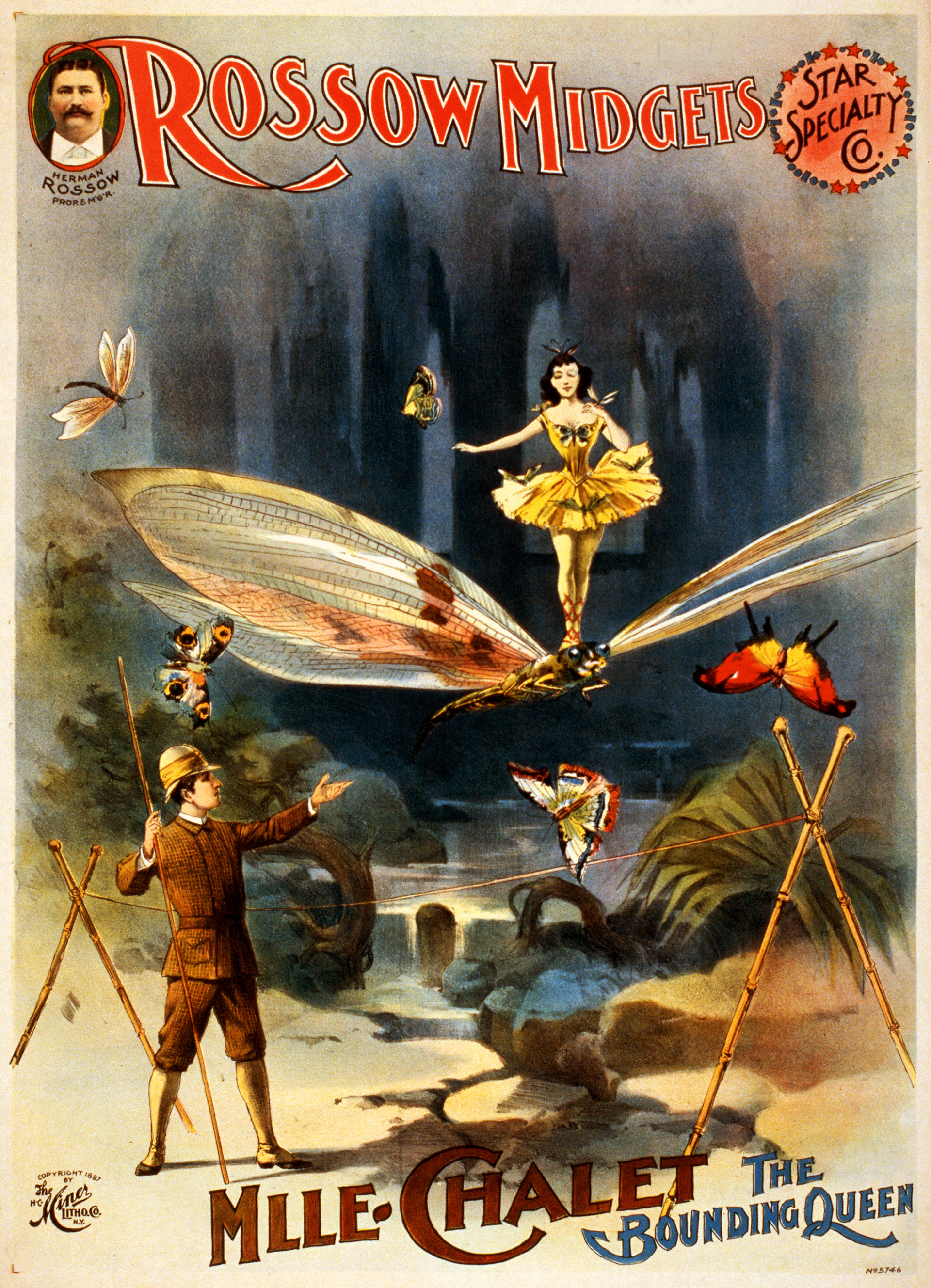 Artistic performance poster for Star Specialty Co., Herman Rossow, proprietor. Text reads: "Rossow Midgets, Star Speciality Co. [presents] Mademoiselle Chalet the bounding queen."